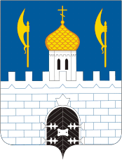 Sergiev Posad (Moscow oblast), coat of arms